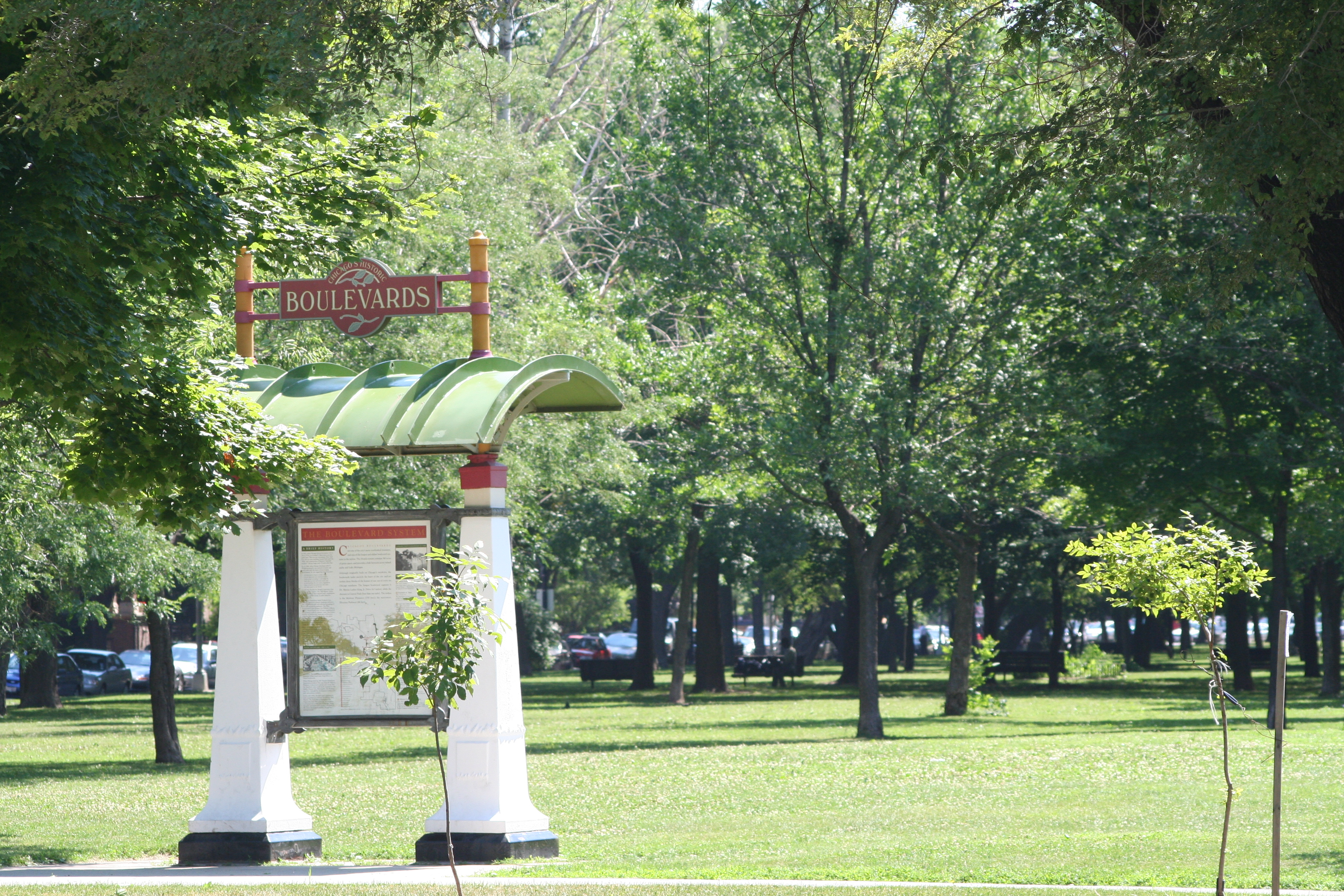 Photo taken by Sam Park on July 7, 2007.